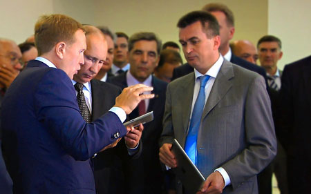 Dmitry Shumkov, Vladimir Putin, Vladimir Miklushevsky